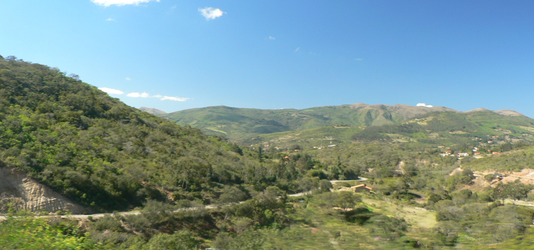 The Ruta 22 (Bolivia) between Mataral and Trigal.